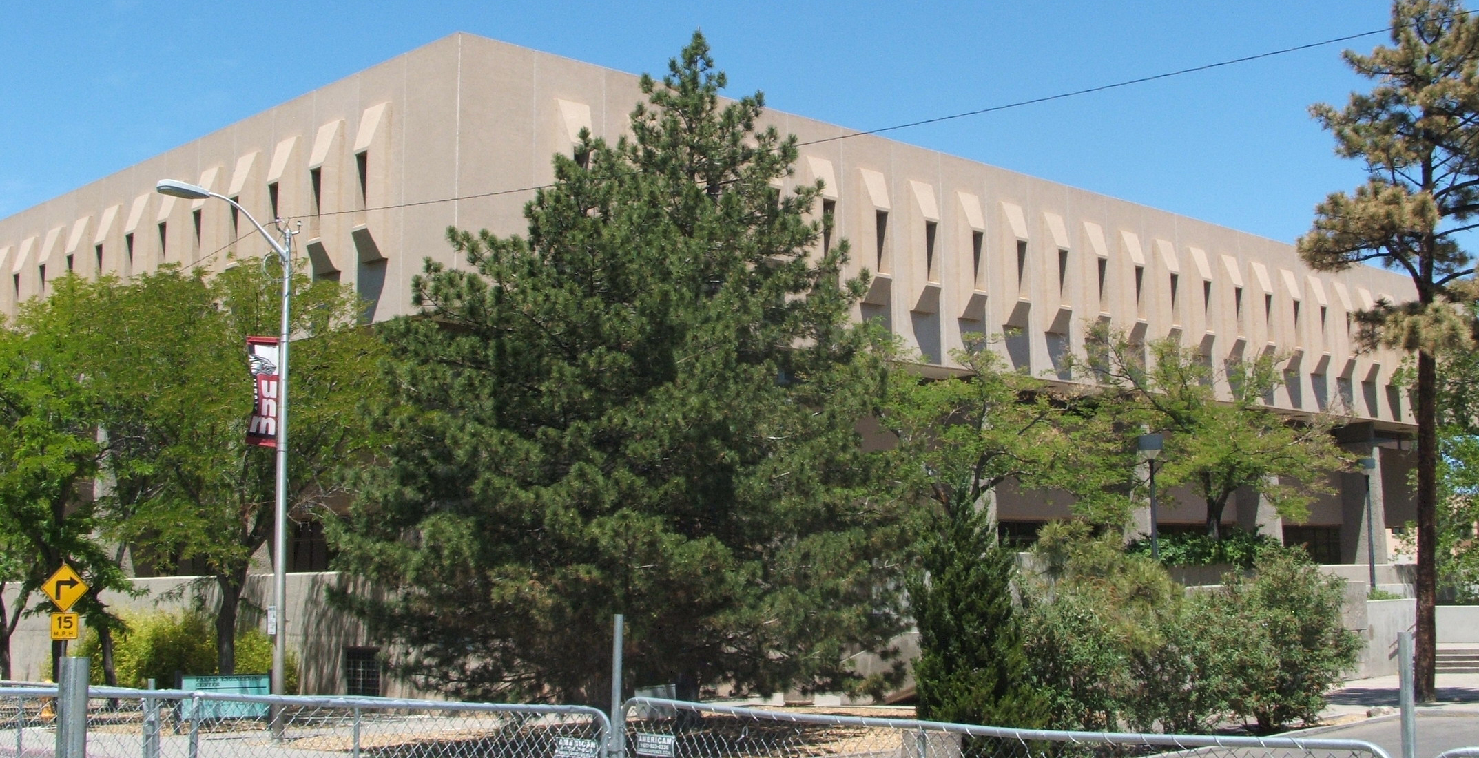 Farris Engineering Center at UNM.